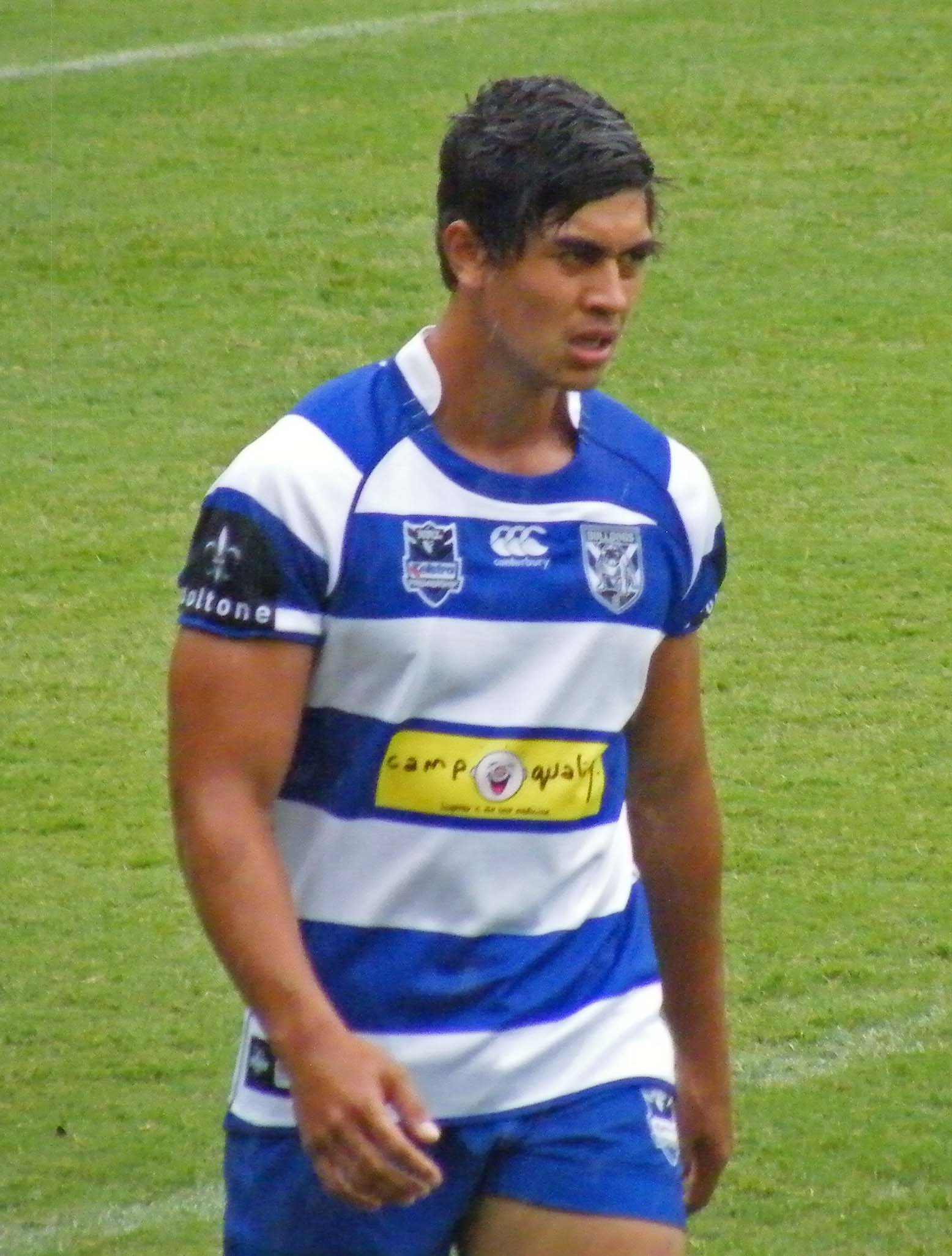 Tim Lafai